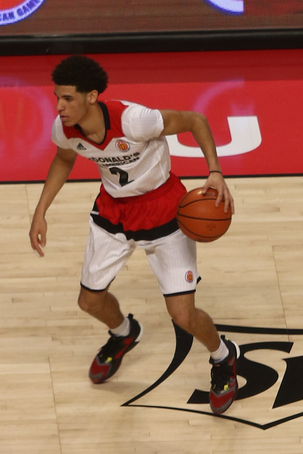 Lonzo Ball at the w:2016 McDonald's All-American Boys Game